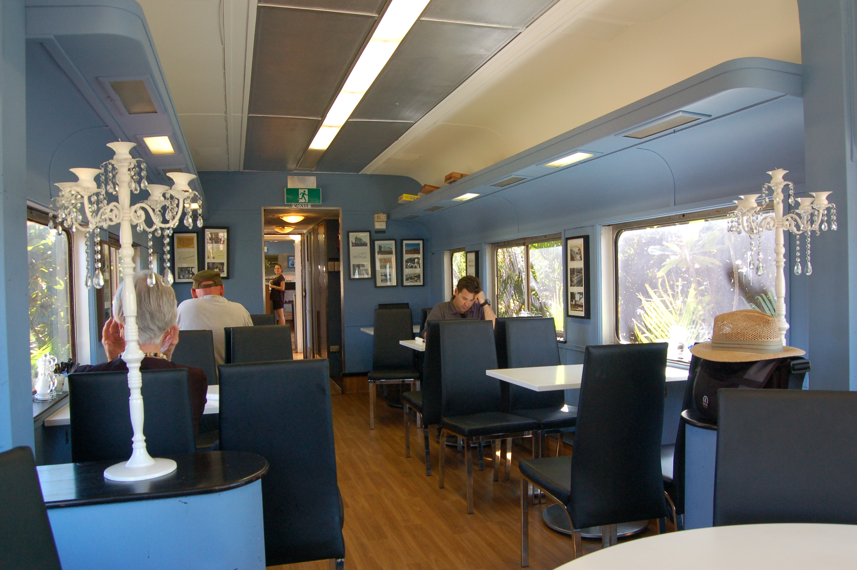 An interior view of the Silver Star Cafe, Port Hedland, Western Australia.